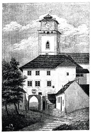 The town tower in Třebíč after fire in year 1822.